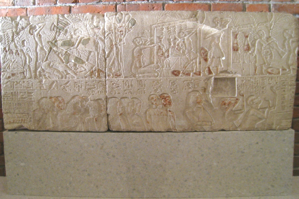 Relief of a tomb from Saqqara, showing mourning times - 18th dynasty of Egypt - Egyptian museum of Berlin